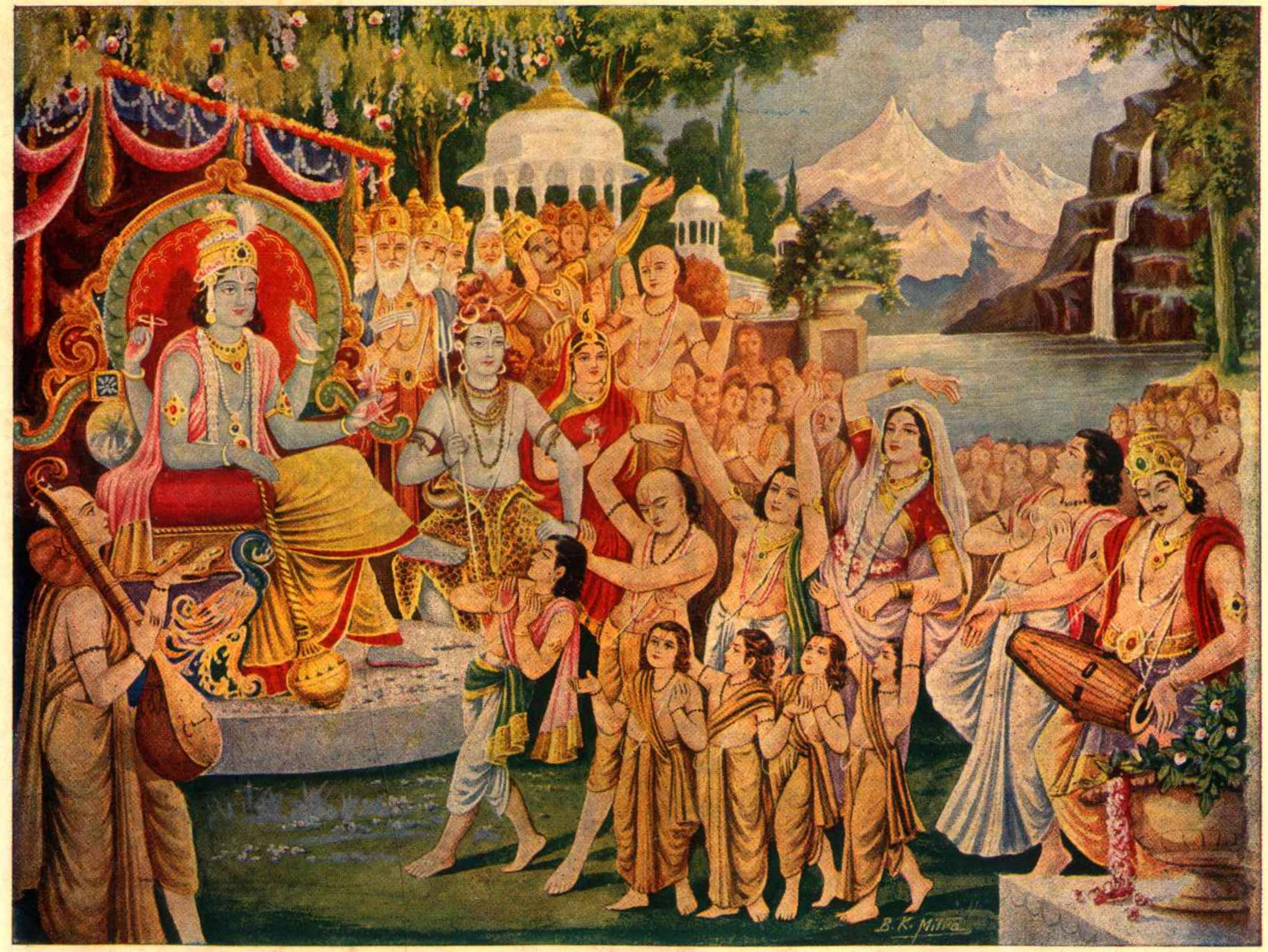 Shrimad Bhagavata Mahapurana Gita Press Gorakhpur by MahaMuni Usage Topics Sanskrit, "महामुनि का संग्रह", "Pratiek-Lucknow" Collection opensource Language Sanskrit Indological Books , 'Shrimad Bhagavata Mahapurana - Gita Press Gorakhpur.pdf' Identifier ShrimadBhagavataMahapuranaGitaPressGorakhpur Identifier-ark ark:/13960/t1bk7m619 Ocr language not currently OCRable Ppi 600 Scanner Internet Archive HTML5 Uploader 1.6.3